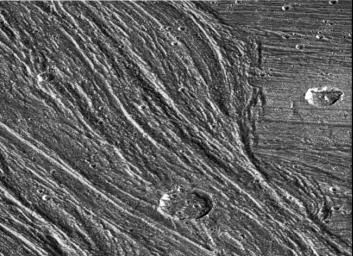 Ridgesgrooves.jpg